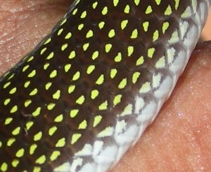 Twin-spotted Wolf Snake Lycodon jara Family Colubridae, Serpentes Close-up of scales. Image taken at Binnaguri, North Bengal, India on 16 July 2007. Identified using Smith, Malcolm A. The Fauna of British India, Ceylon and Burma (including the whole of the Indo-Chinese sub-region)Vol III - Serpentes. (1943).Taylor & Francis. London. (Includes 166 figures). (Ref - pg 260-261). Advice of Mr Ashok Captain. Self-work.